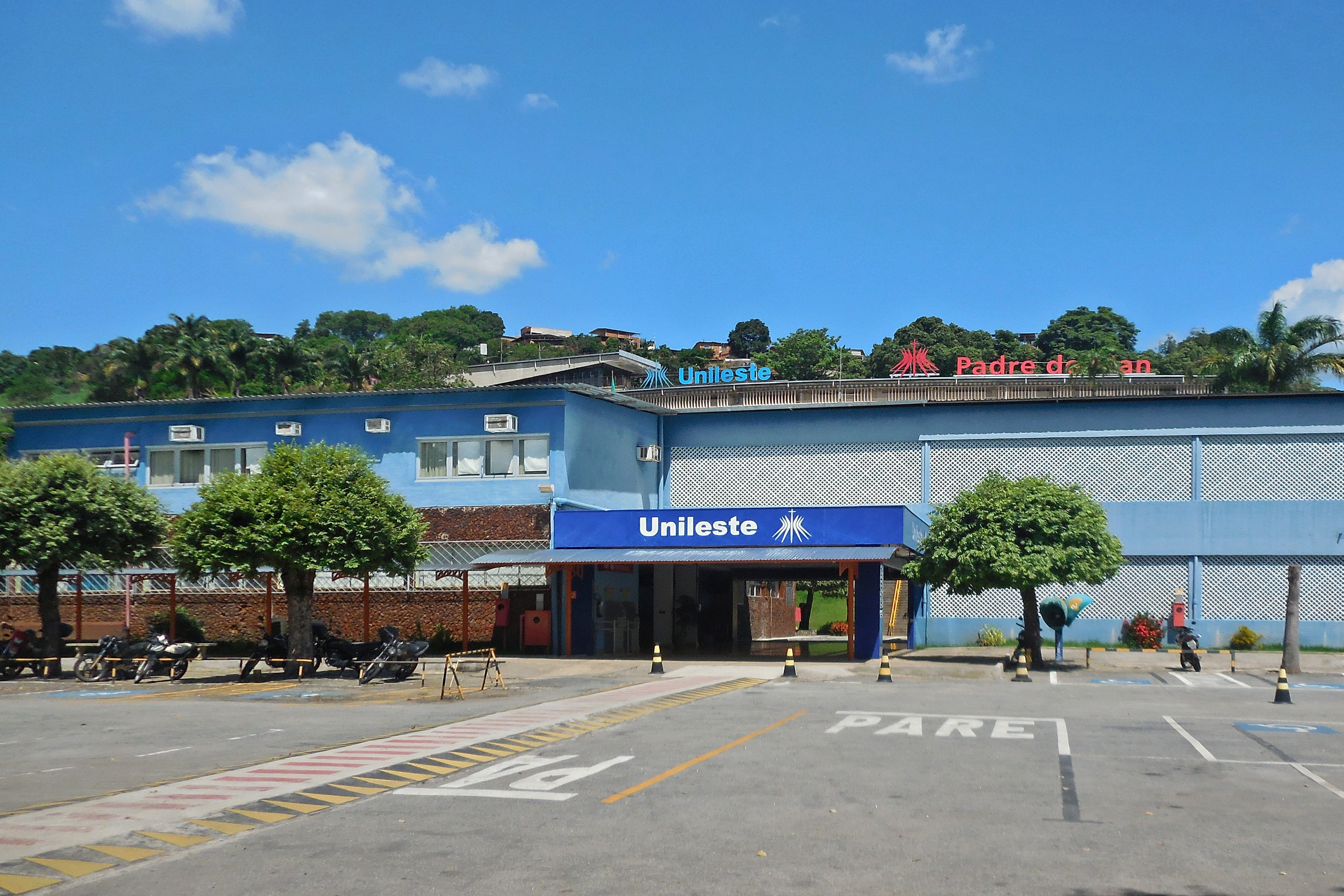 View of the Centro Universitário Católica do Leste de Minas Gerais (Unileste), in Coronel Fabriciano, Minas Gerais, Brazil.